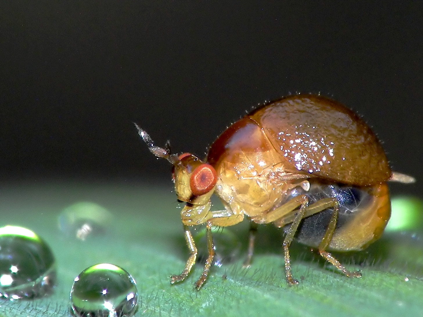 An unidentified celyphida (beetle-backed fly).